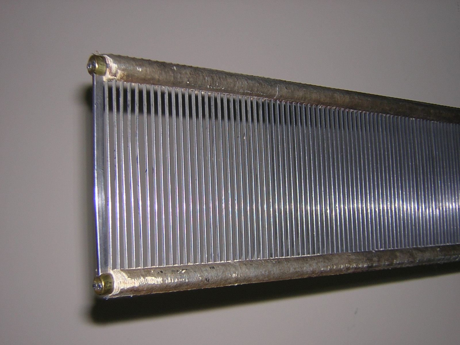 This is a picture of a reed on end-a reed is part of a loom and is used in weaving.